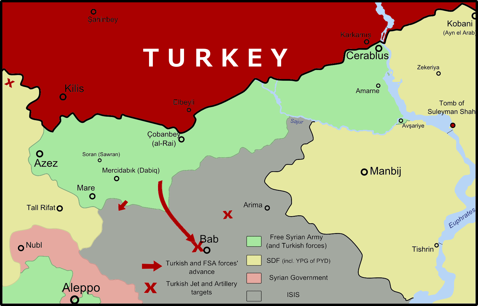 The current map of the latest situation of the ongoing Turkish-led offensive in Northern Syria. (Subject to updates)